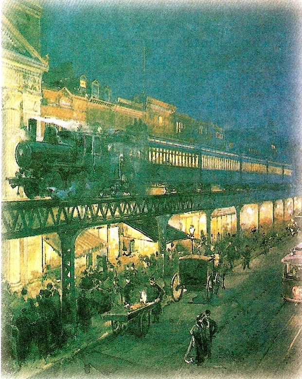 Bowery, in New York City.